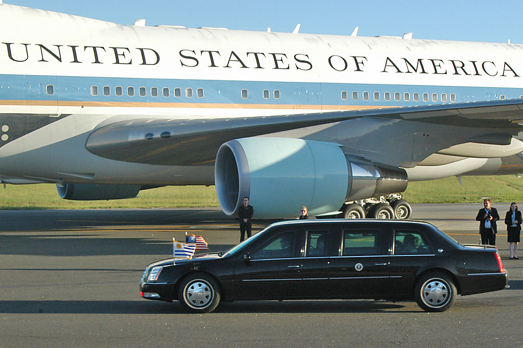 Air Force One and Presidential Limo at Montevideo (Uruguay) Airport.